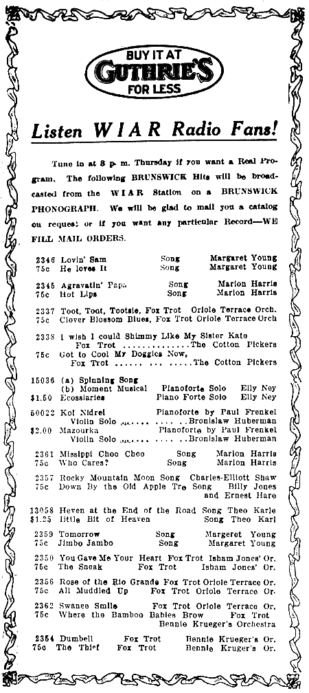 WIAR was a radio station in Paducah, Kentucky that was licensed to the Paducah Evening Sun newspaper. This advertisement promotes a program featuring the playing of Brunswick phonograph records.